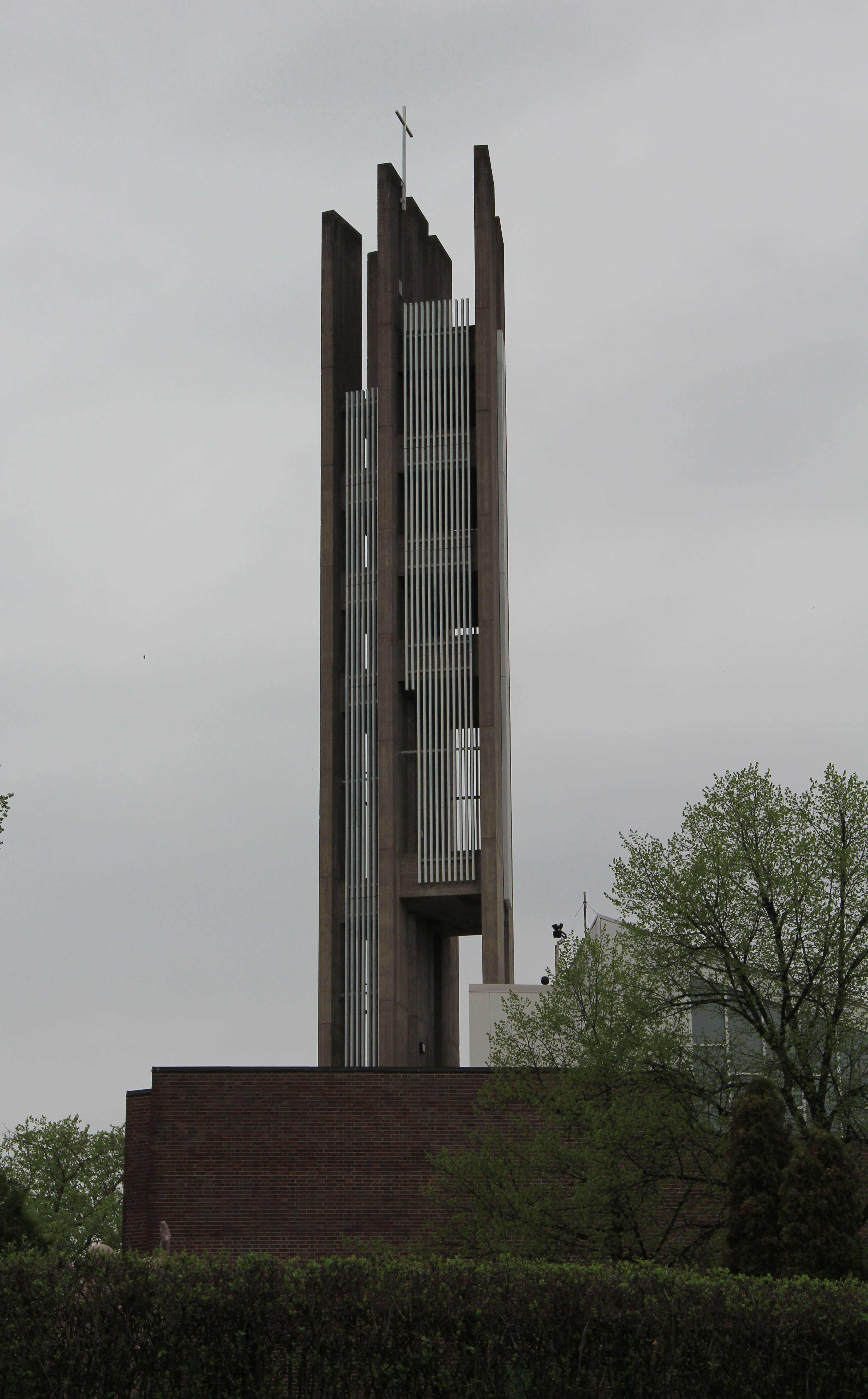 Church of The Cross, Lahti, Finland. Designed by architect Alvar Aalto, completed in 1978. Bell tower. Photo taken from east.